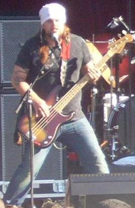 Author: Omar Otiniano Nationality: Peruvian Photo taken At: Marysville, CA